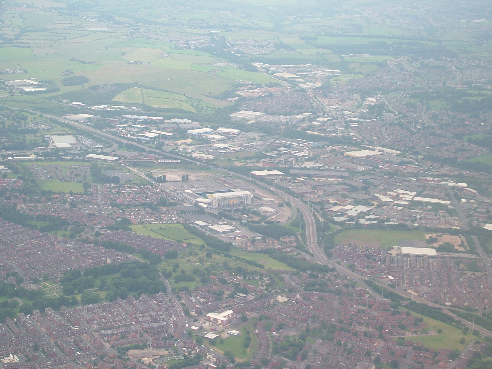 An aerial photograph of South Leeds, showing Beeston, Holbeck, Wortley, Elland Road stadium and the M621. Taken on the 23rd of June 2007.